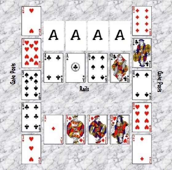 This is a diagram of the solitaire game of Gate, based on a simulated layout. The image is made in Microsoft Powerpoint and the cards used were based on the SVG Playing Cards.